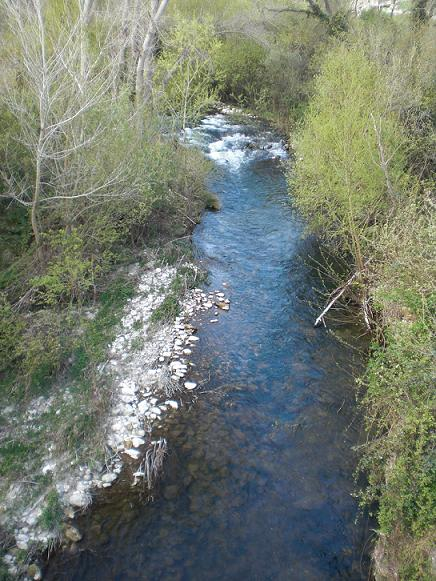 The river Irminio in the Sicilian province of Ragusa.